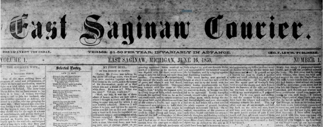 East Saginaw Courier newspaper V1 No1 first issue